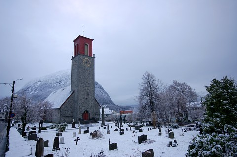 Volda Church in Norway.